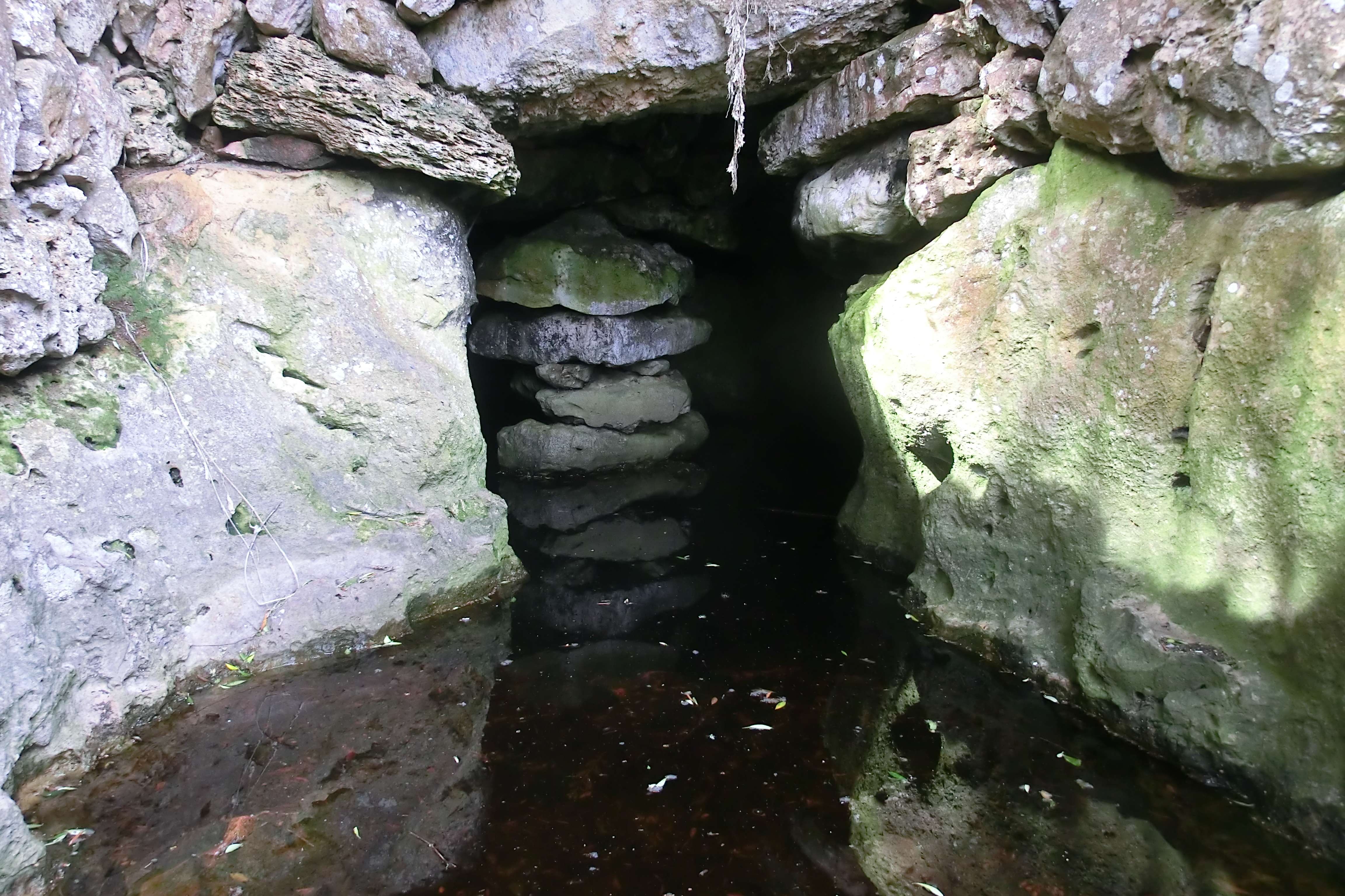 Hypostyl in the prehistoric settlement Torretrencada, Ciutadella, Minorca.